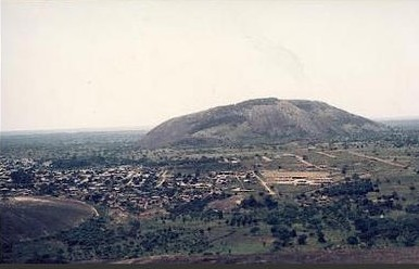 A volcanic plug mountain, in the town of Boundiali, Savanes Region, northern Côte d'Ivoire.